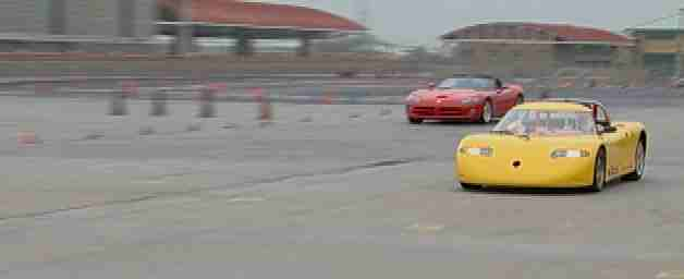 Tzero an older model electric vehicle on a drag race with a Dodge Viper left behind